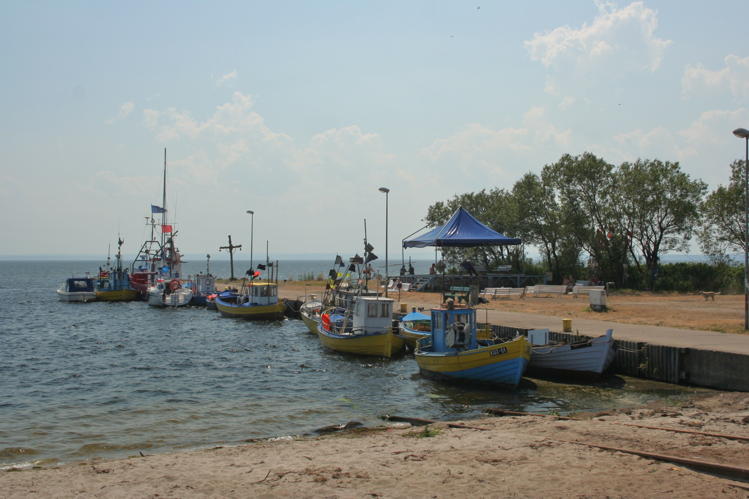 Kuźnica Harbour.